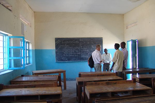 Hargeisa, Somalia. Image taken by Charles Fred on flickr. The creator has granted GFDL licensing and permission for use in the wikimedia project.